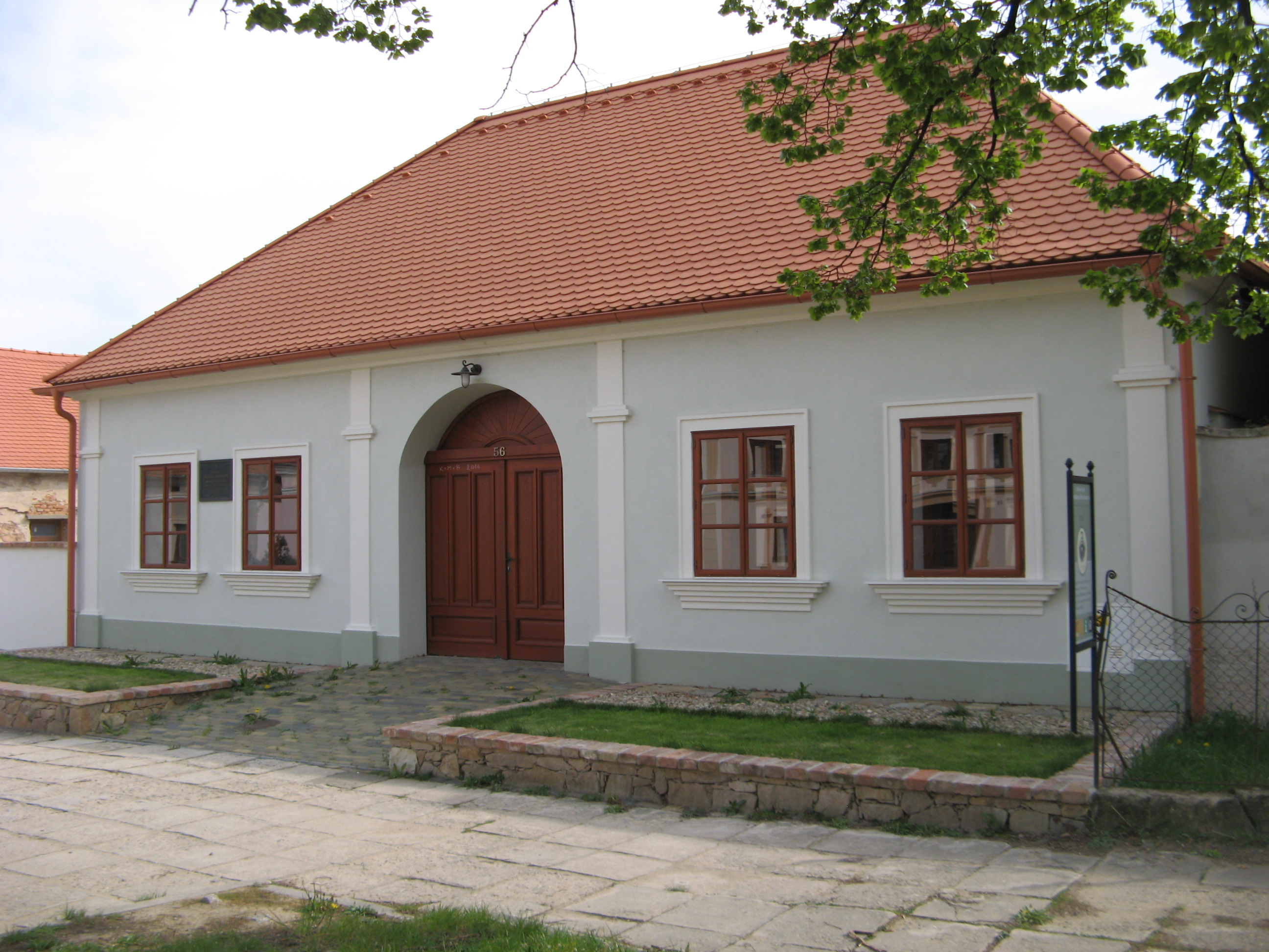 Birth house of Charles Sealsfield, Popice (Poppitz) near Znojmo, Czech republic